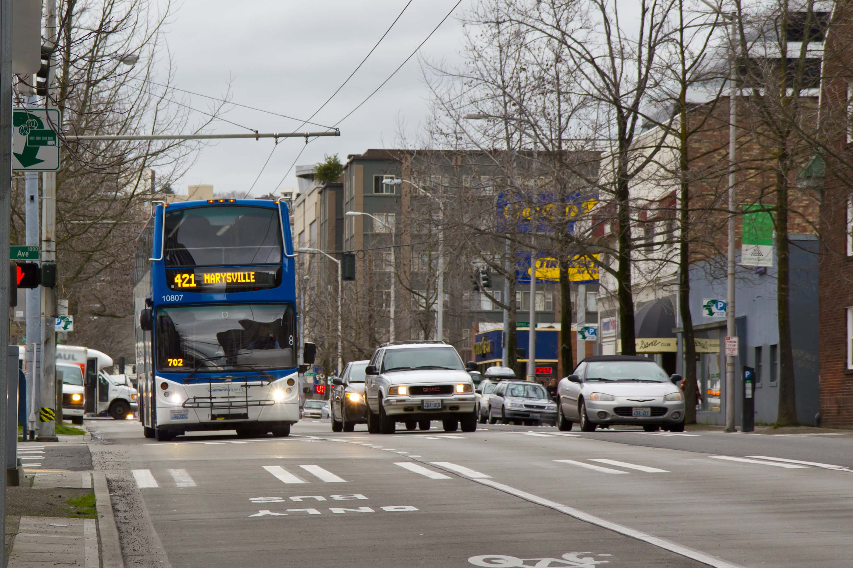 Community Transit Alexander Dennis Enviro500 traveling down Stewart Street in Seattle, Washington, USA.